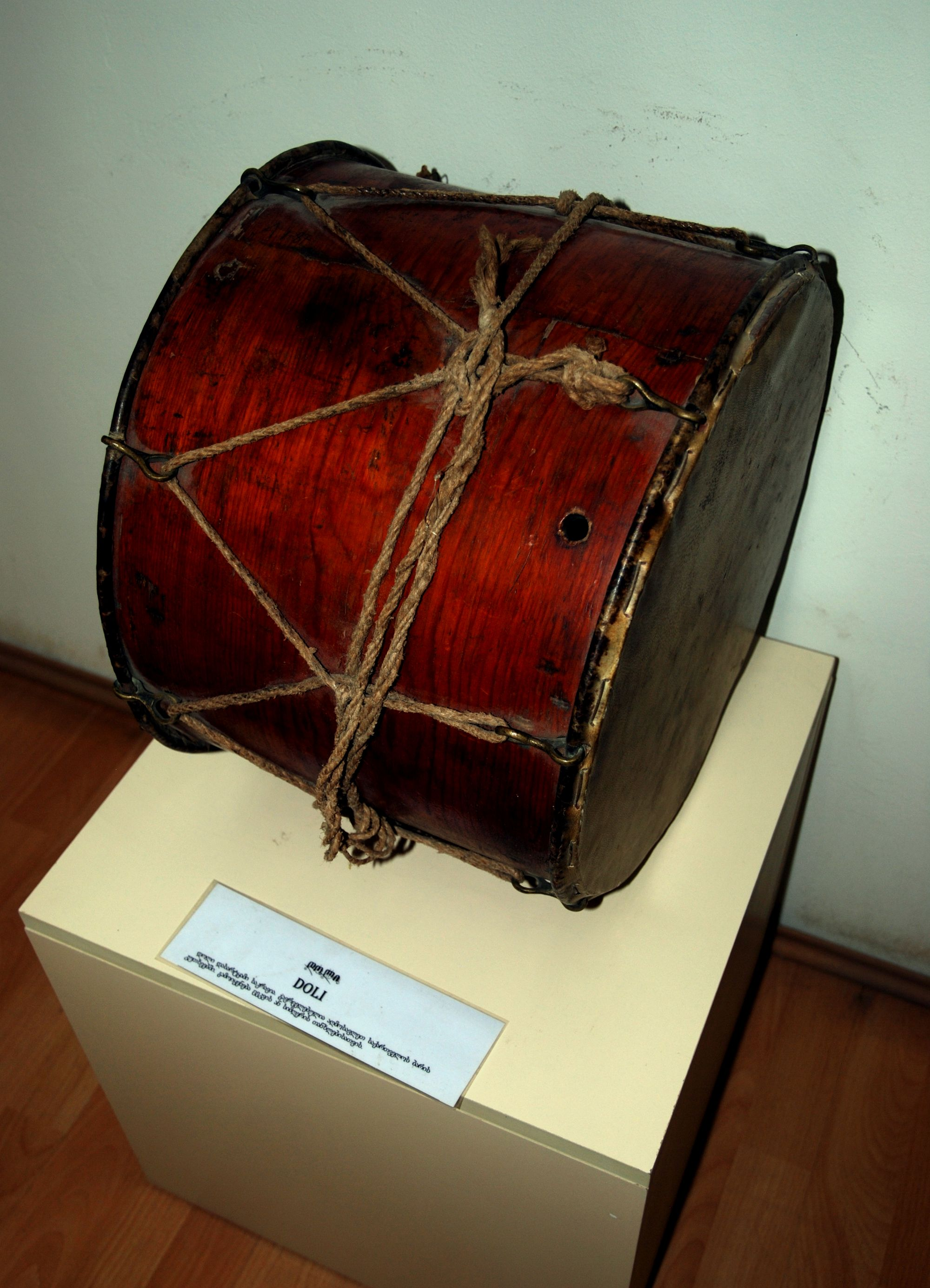 Doli, Georgian drum, State Museum of Georgian Folk Songs and Musical Instruments, Tbilisi